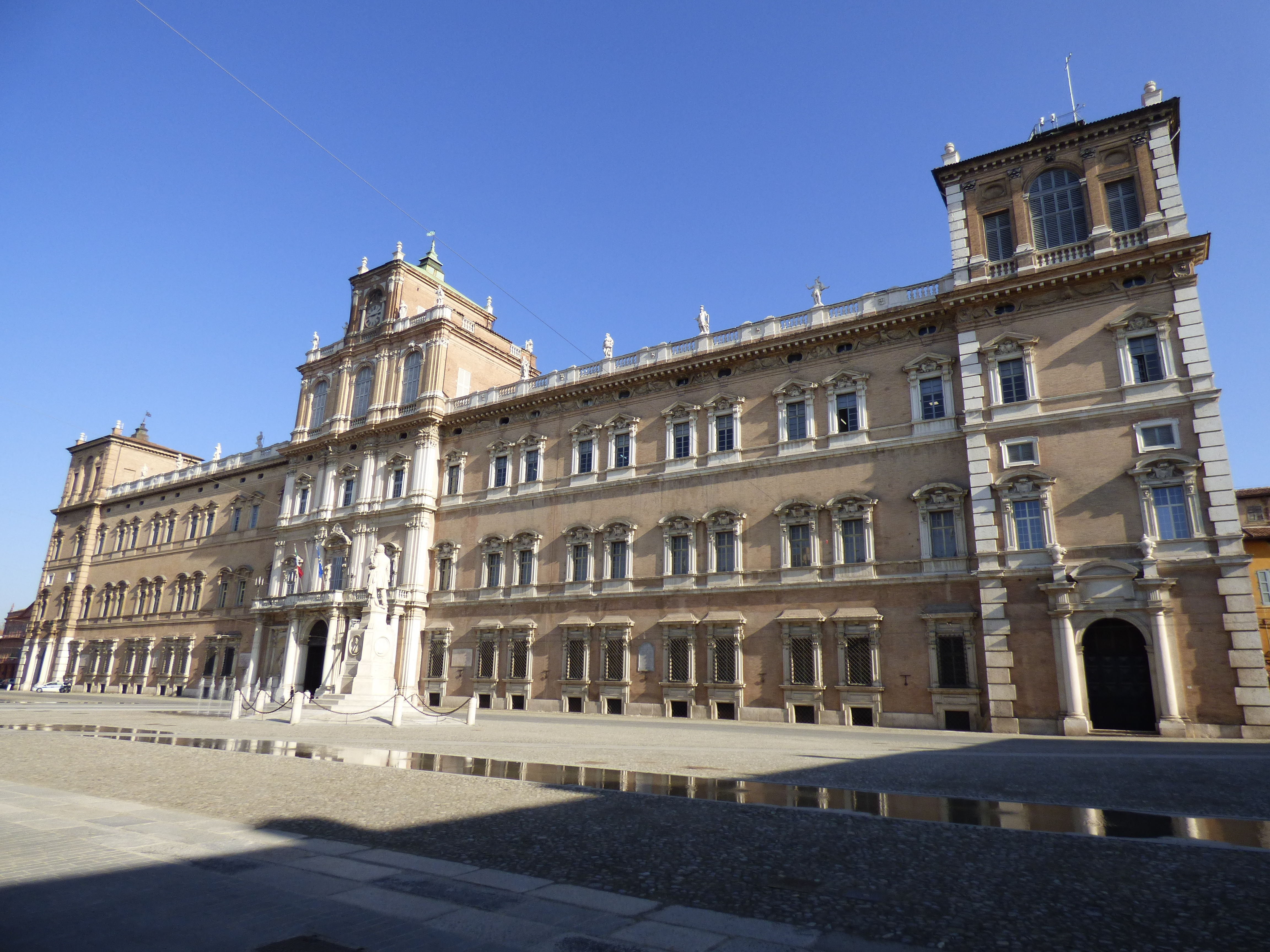 Ducal palace, Modena, Italy, exterior